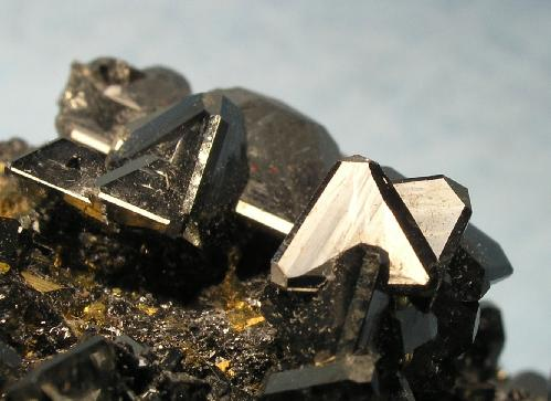 Tetrahedrite, Chalcopyrite, Sphalerite Locality: Casapalca Mine, Casapalca, Huarochiri Province, Lima Department, Peru (Locality at ) Size: 8.2 x 6.4 x 4.7 cm. A large, very rich specimen of sharp, modified Tetrahedrite crystals from Peru. These crystals, often intergrown or sprinkled with showy brassy Chalcopyrite, measure to .9 cm along the edge. The Tetrahedrites have superb luster and have fascinating modifications on the faces and edges. All rest on massive Sphalerite, and there are several large, intergrown Sphalerite crystals, as well. Ex. Charlie Key.